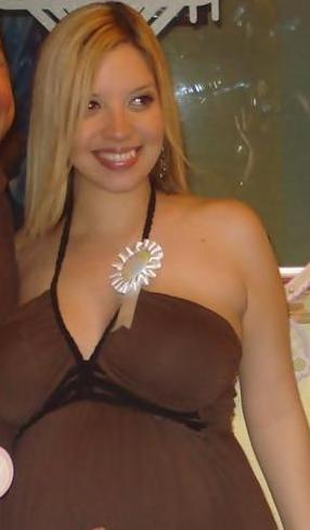 Puerto Rican singer and songwriter Mary Ann Acevedo at her "baby shower" organized by her fan club.